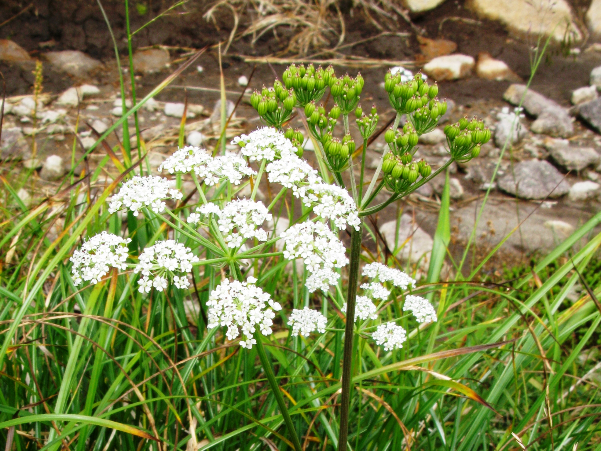 Tilingia ajanensis, Mt. Nishi-Azuma, Fukushima pref., Japan